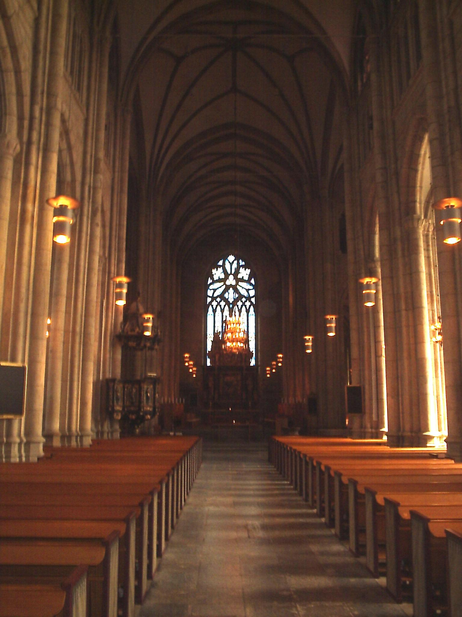 Photo by Harri Blomberg. There is an edited version available of this image: Image:Skara-domkyrka-straightened.jpg